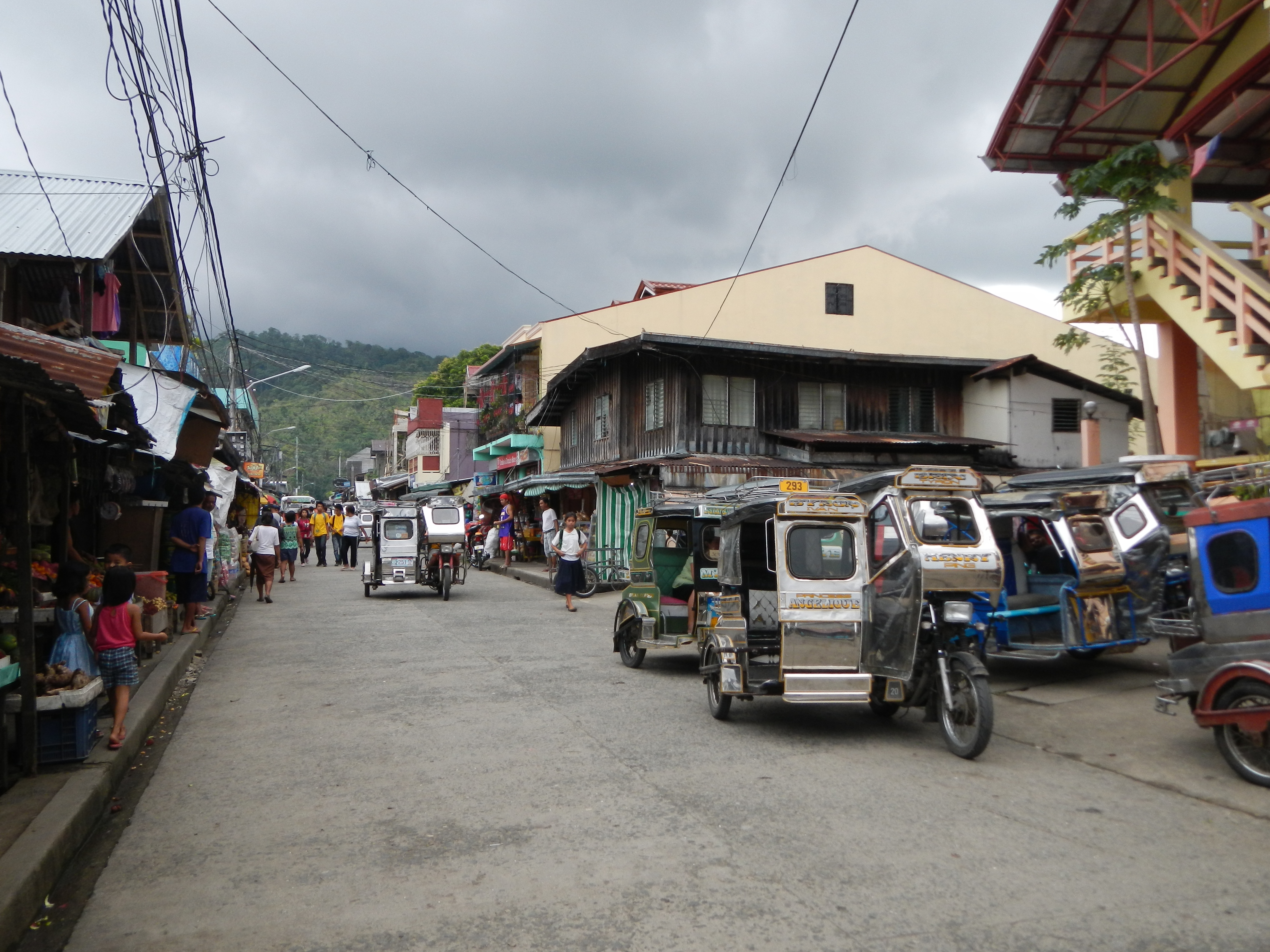 UploadWizard photos --- (general description) of landmarks, heritage, culture, comprehensive, photography the scenery, greens) of ----Real, Quezon[1] - Saint Raphael the Archangel Parish Church of Real, (F-1963 Real, 4335 Quezon[2] 4335 Quezon Population: 20,475; Catholics: 17,403 Titular: St. Raphael the Archangel, September 29 Parish Priest: Rev. Fr. Miguel Floro D. Avenilla Province of Quezon I. Vicariate of the Divine Infant Jesus of Prague Vicar Forane: Rev. Fr. Alberto C. Salamatin[3] (Poblacion I) Coordinates: 14°39'48"N 121°36'4"E [4] [5] belongs to the Roman Catholic Territorial Prelature of Infanta[6]) -Raphael (archangel)[7]) and Real Public Market, by Mayor Joel Amando A. Diestro - & - Passenger's Terminal, Coast Guard at the - Ungos Port or Real Port [8] [9] the castle-fortress was called “Puerto Real” or Royal Port [10] (is the main gateway to Polillo, go first to Ungos Port in Real, Quezon viat from the Lucena-Infanta route originating from Lucena Grand Terminal or van or Raymond bus terminal in Legarda, Manila through the Famy-Real-Infanta Road. Famy the junction with the Rizal-Laguna Road, with 2 regular boat trips from Real to Polillo at 7:30AM next boat leaves at 10:00AM return trips from Polillo are at 5:00AM and 1:00PM)[11] [12] is project of Cong. Raffy P Nantes.